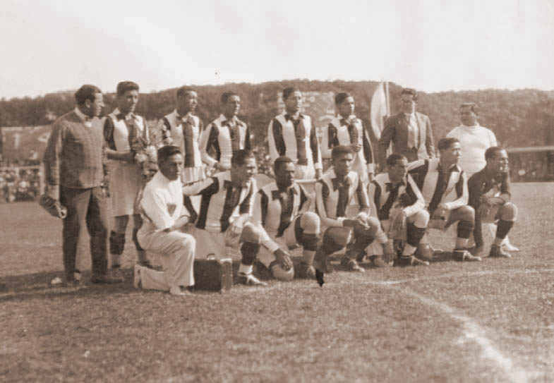 A Peru national football team line-up in the 1927 South American Championship (current "Copa América"), before a game versus Argentina.